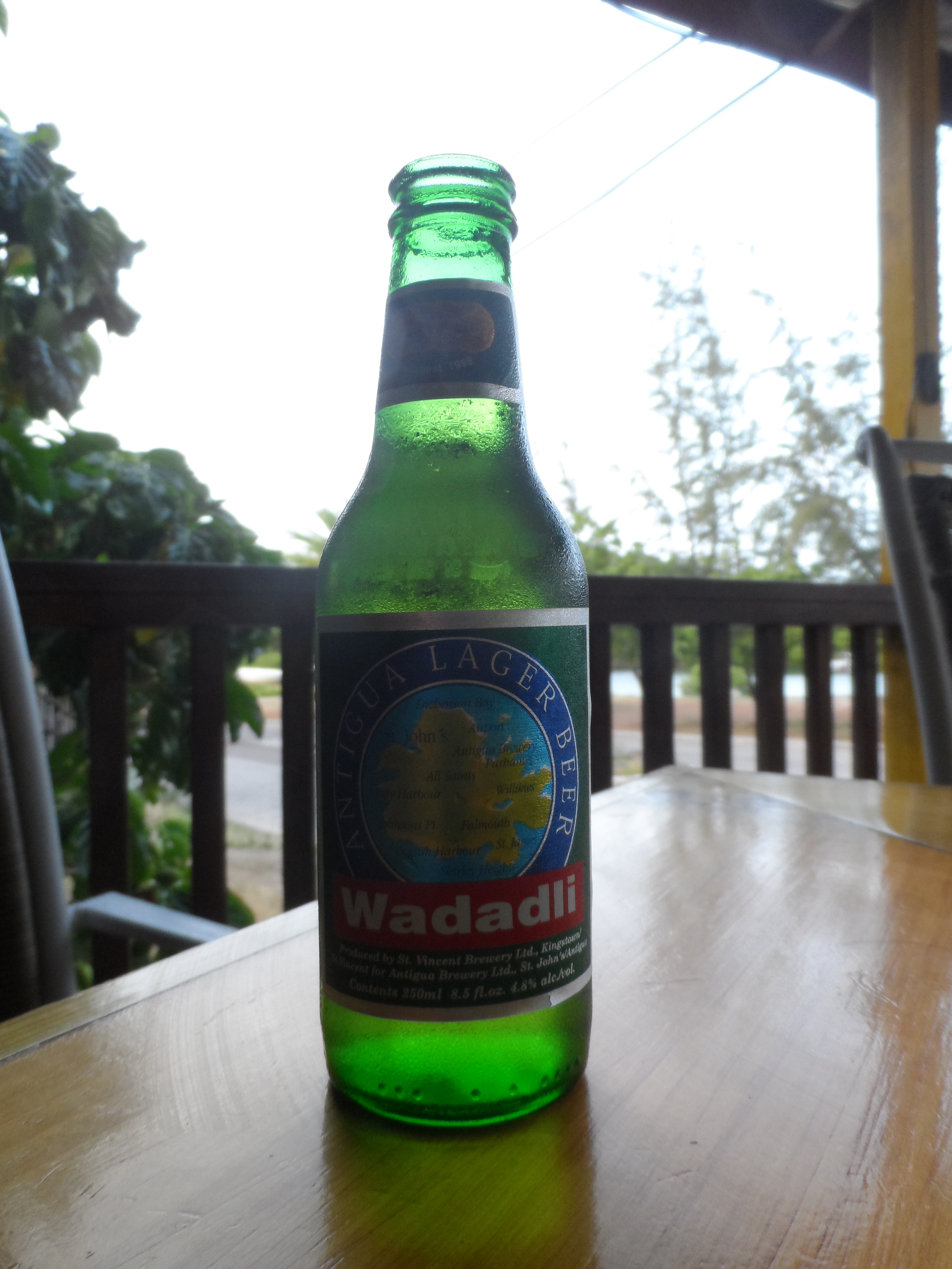 Wadadli beer from Antigua and Barbuda.